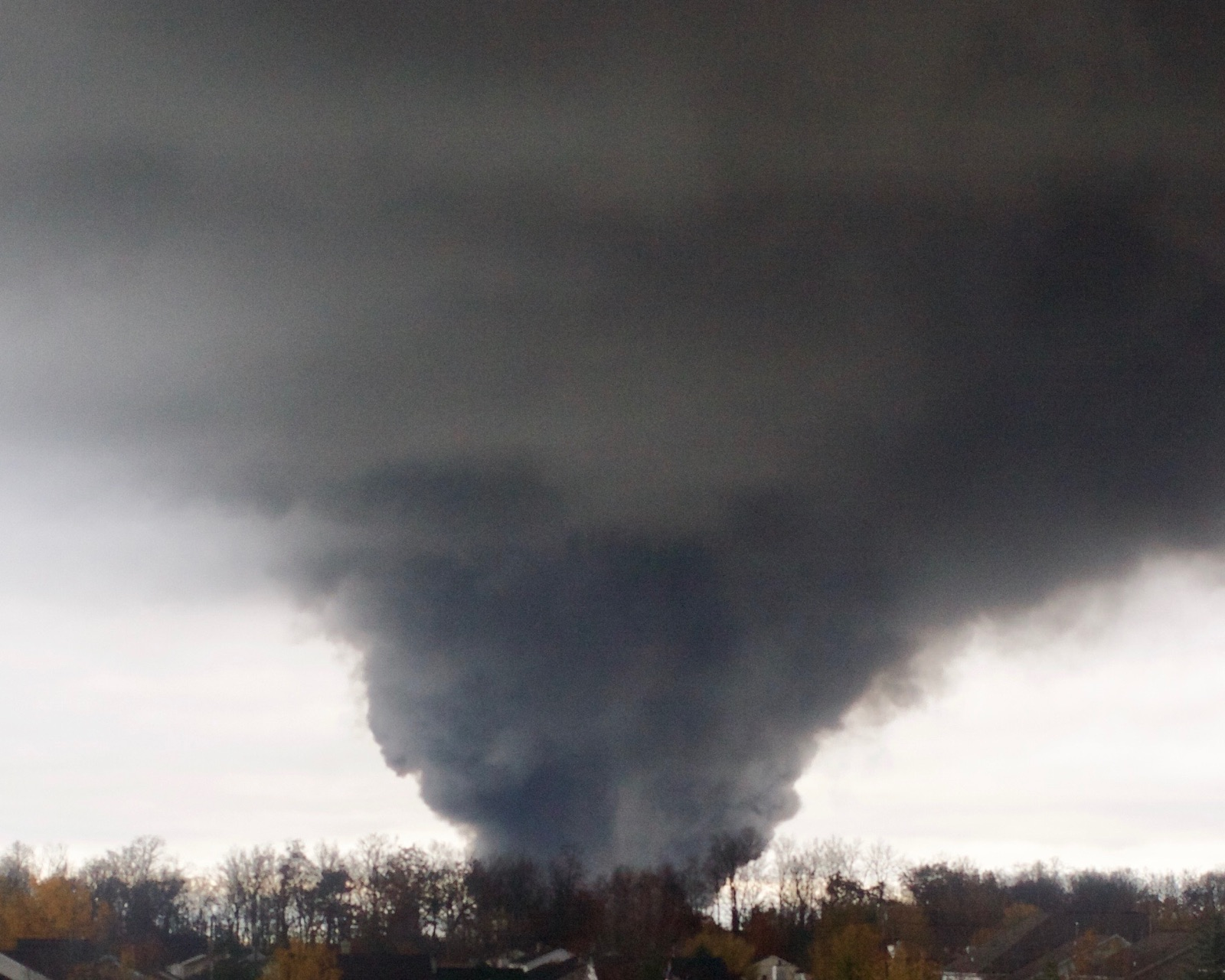 Plume from plant fire